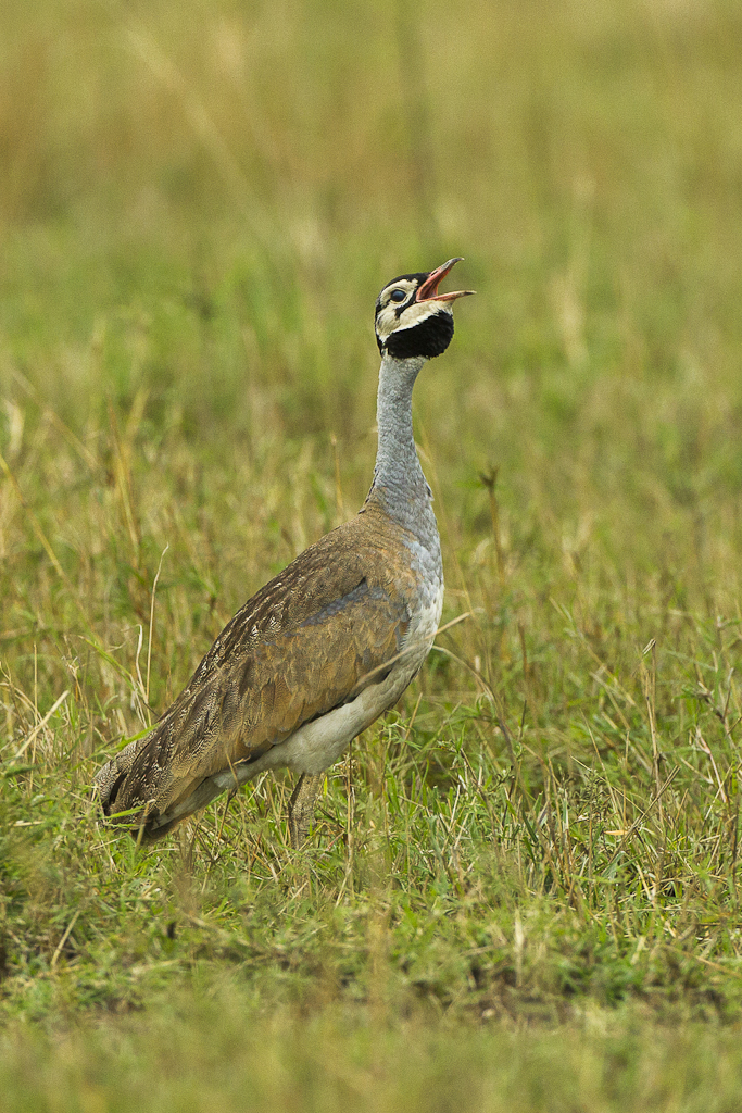 White-bellied Bustard - Mara - Kenya__S4E1673